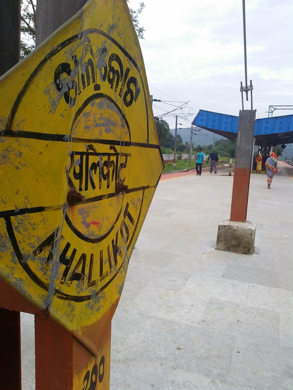 This is the Picture of Khallikot railway station